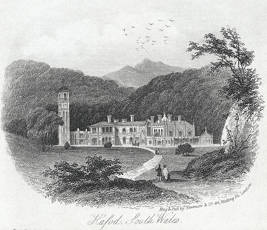 Manor house.